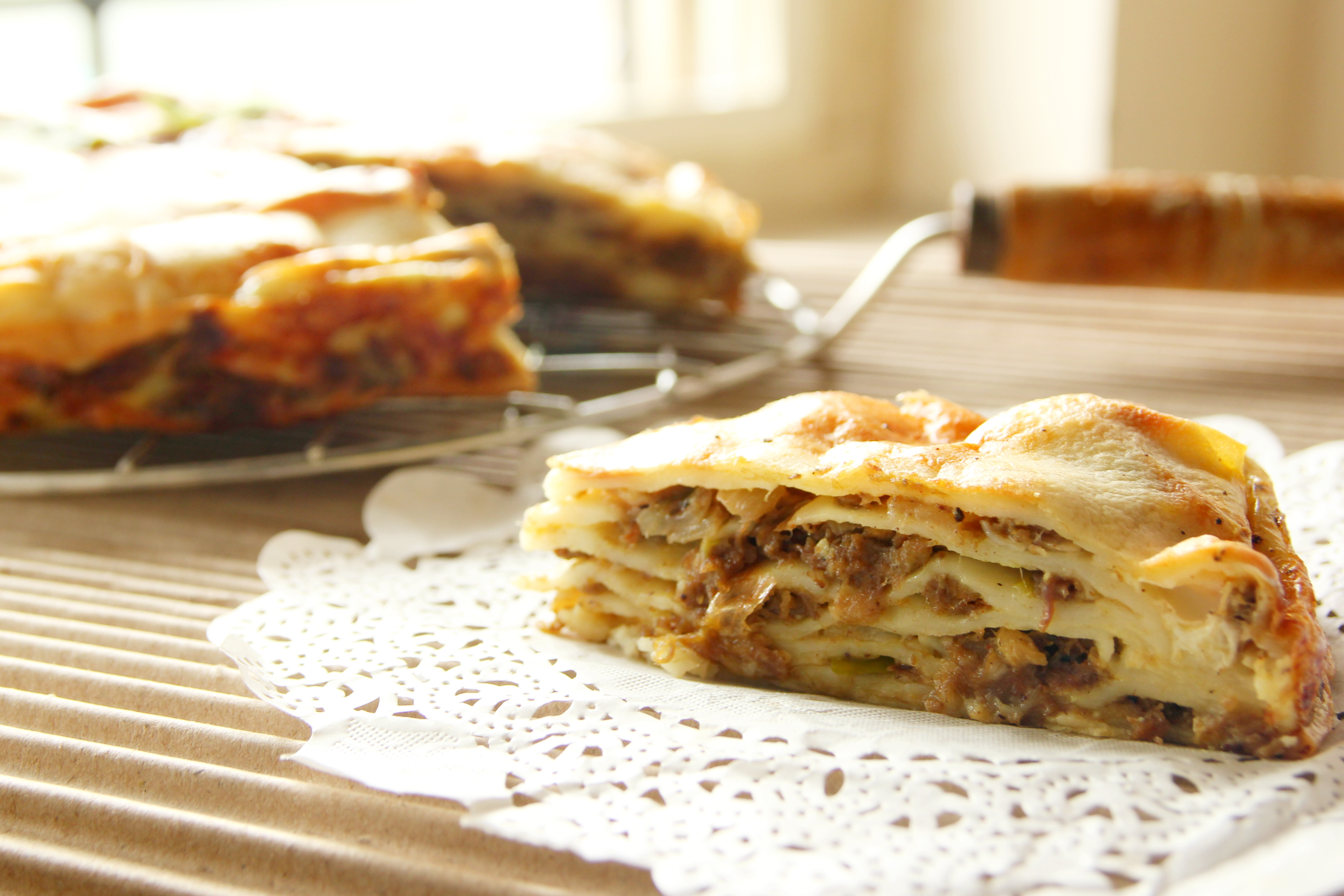 Chatti pathiri is a traditional malabar muslim dish similar to lasagne where layers of beef/chicken masala mixture is baked in oven in between layers of egg dipped pancakes. It is a very tasty dish which holds a special place in malabar muslim weddings and receptions.